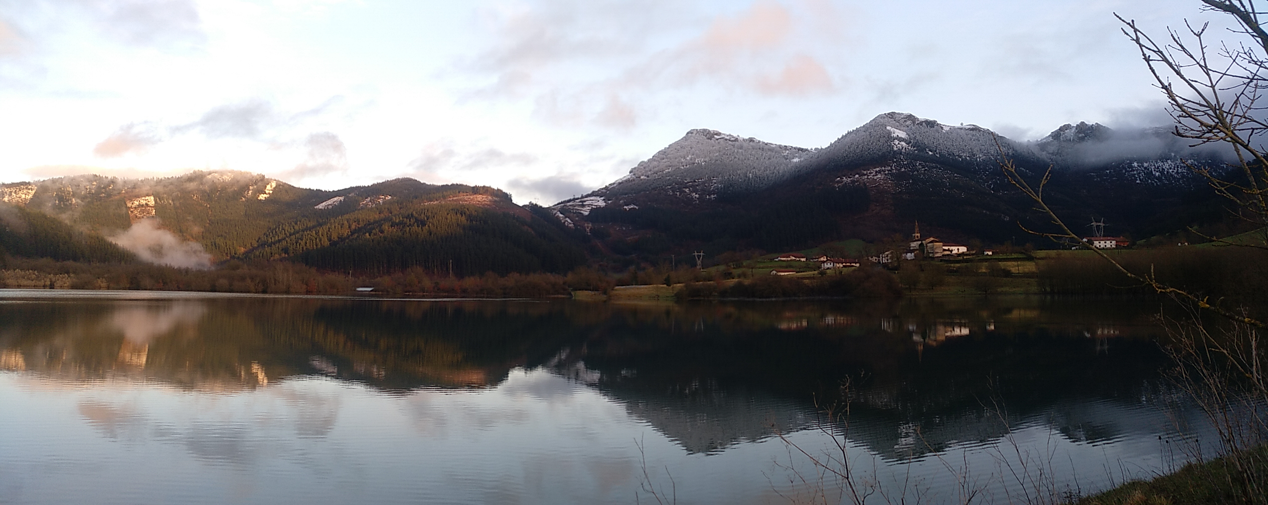 Urkulu reservoir